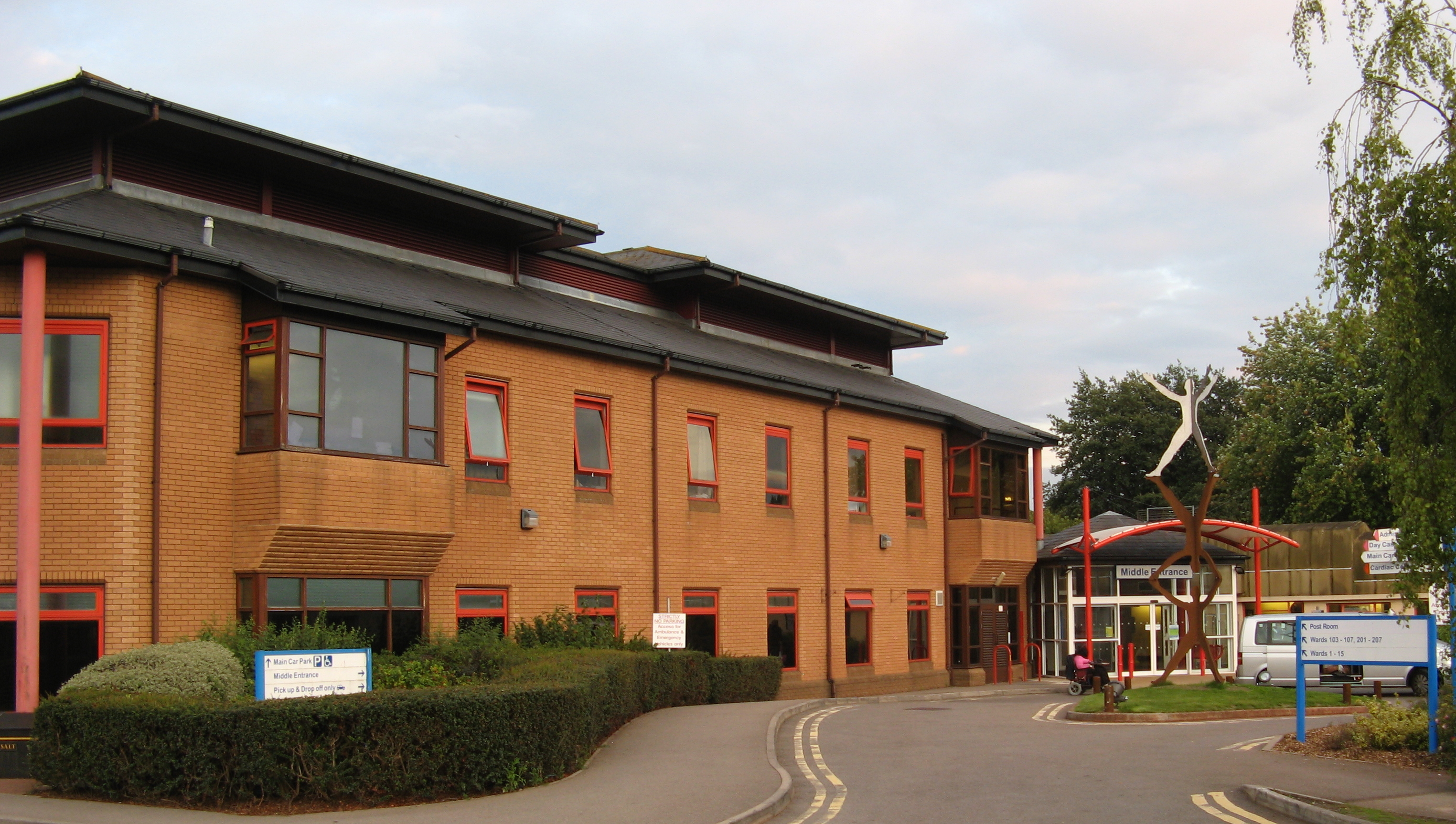 Frenchay Hospital, middle entrance. The brown brick building to the left of the entrance contains Wards 103-107 on the ground floor, and Wards 201-207 upstairs.